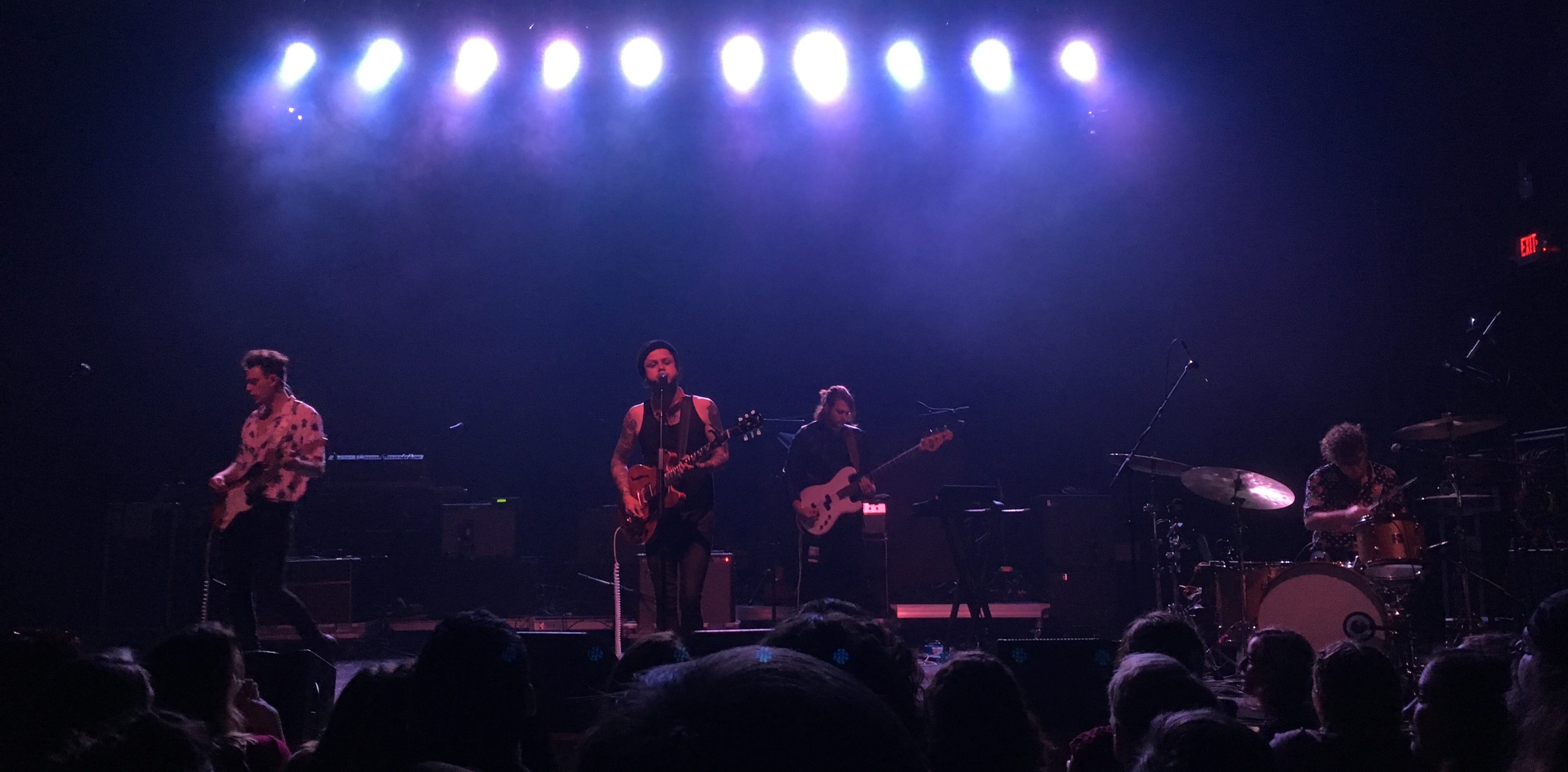 lovelytheband performing live at Express Live! in Columbus Ohio on April 15, 2018